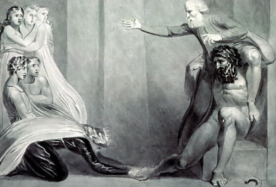 An illustration for William Blake's unpublished 1789 poem, Tiriel